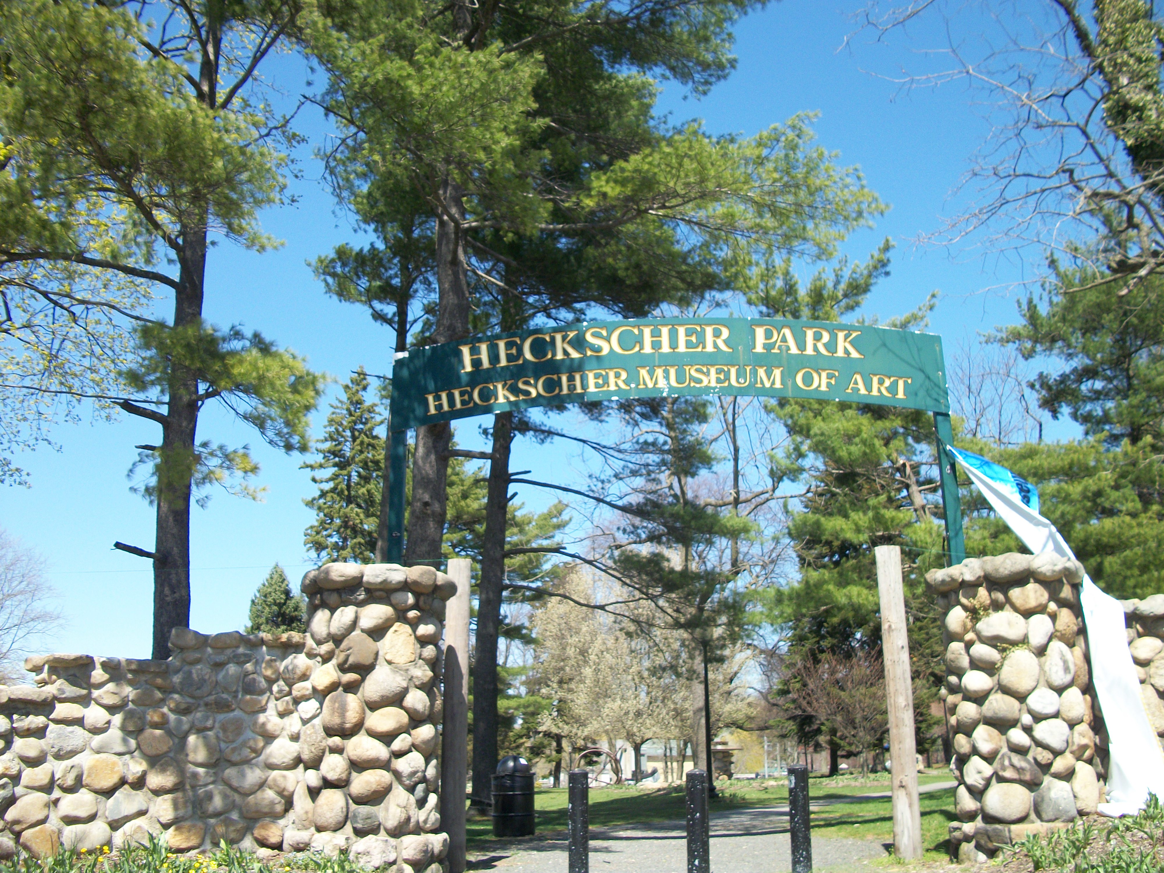 The main entrance to Heckscher Park (Huntington, New York).